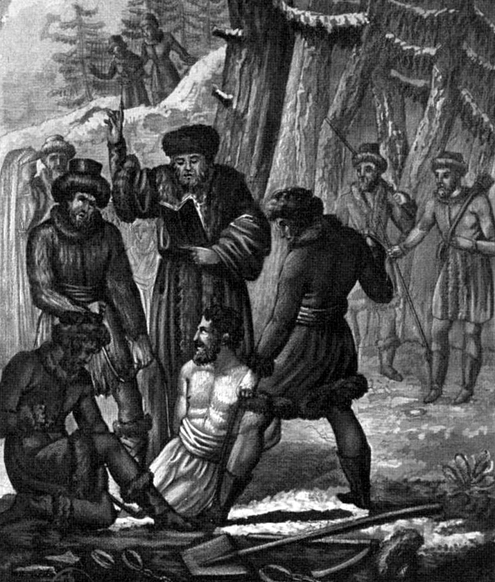 Torment in use in Sybérie